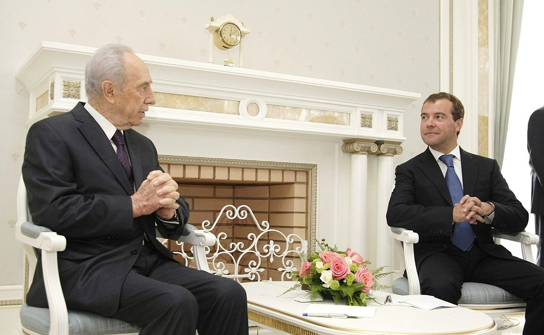 Dmitry Medvedev and Binyamin Netanyahu meet in Gorki